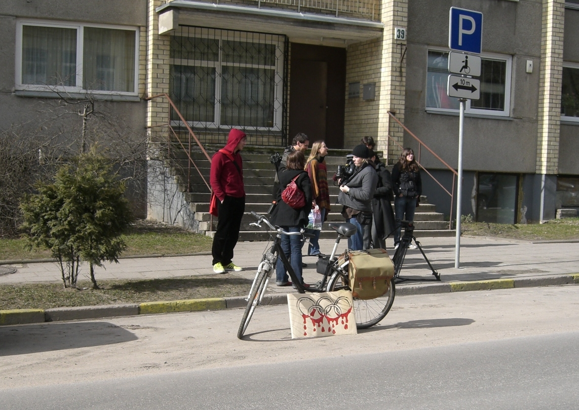 Action "Free Tibet" was anounced in the internet portals. Here is my small handmade poster. Arrived almost first, so there is mainly media in the background. Later there were about 20 protesters with different background with vast majority from Tibet support group. Action took place right in front of China embassy and lasted about 1 hour.